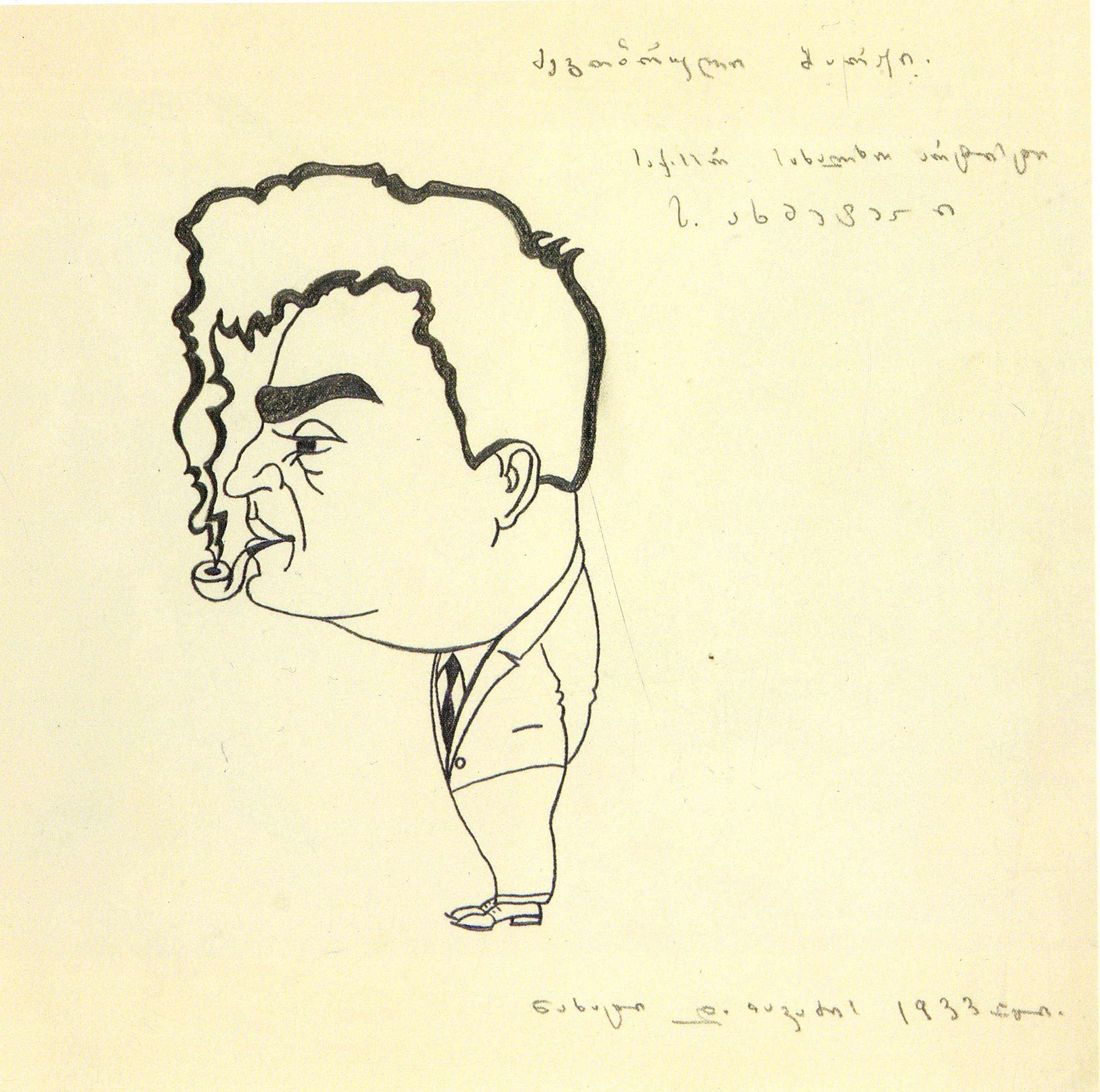 Author: Dimitri Tavadze; Year: 1933; Sandro Akhmeteli (Caricature)